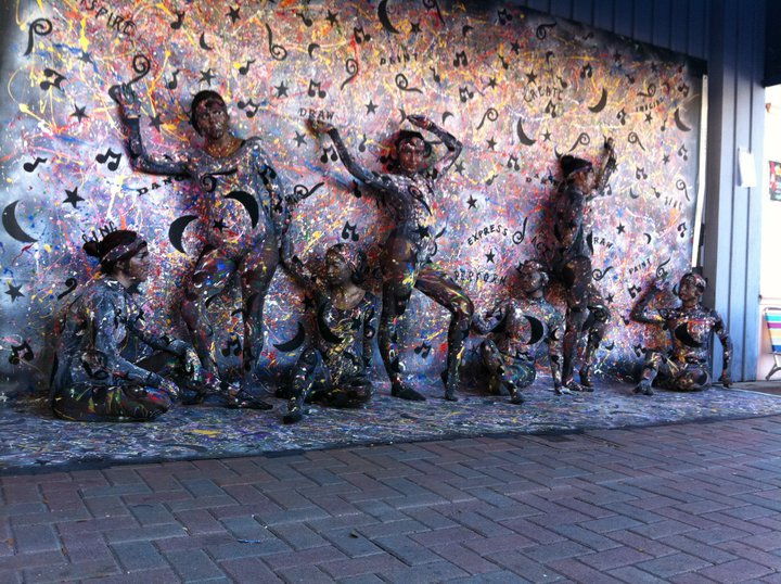 The winning creative team at Realize Bradenton's ArtSlam 2010, "Don't Let the Arts Disappear." Project by Kathy Cocciolone, art instructor at Bayshore High School in Bradenton with other faculty and students.